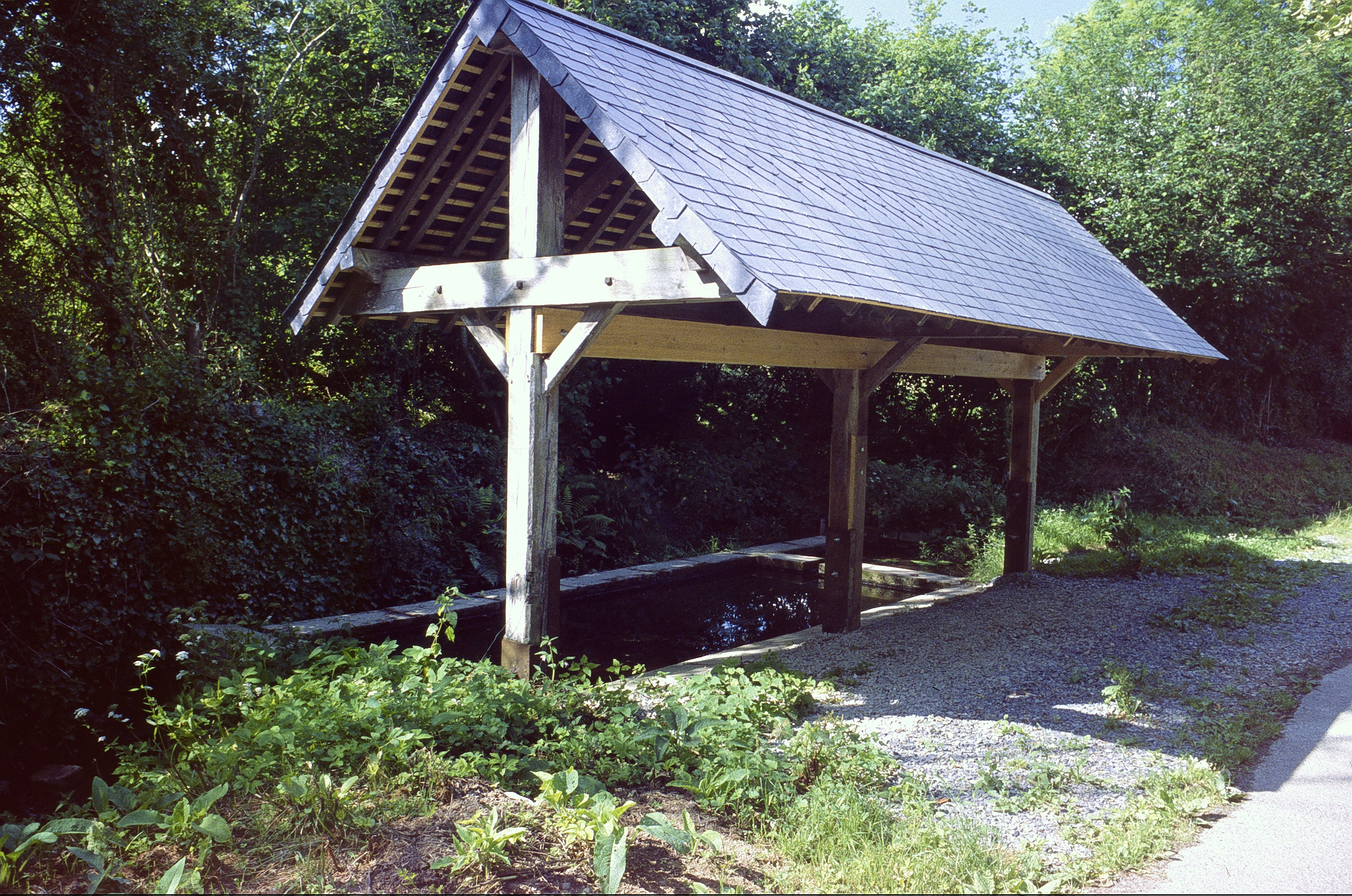 Wash house of Landes-sur-Ajon, place "Le Bas de Landes"